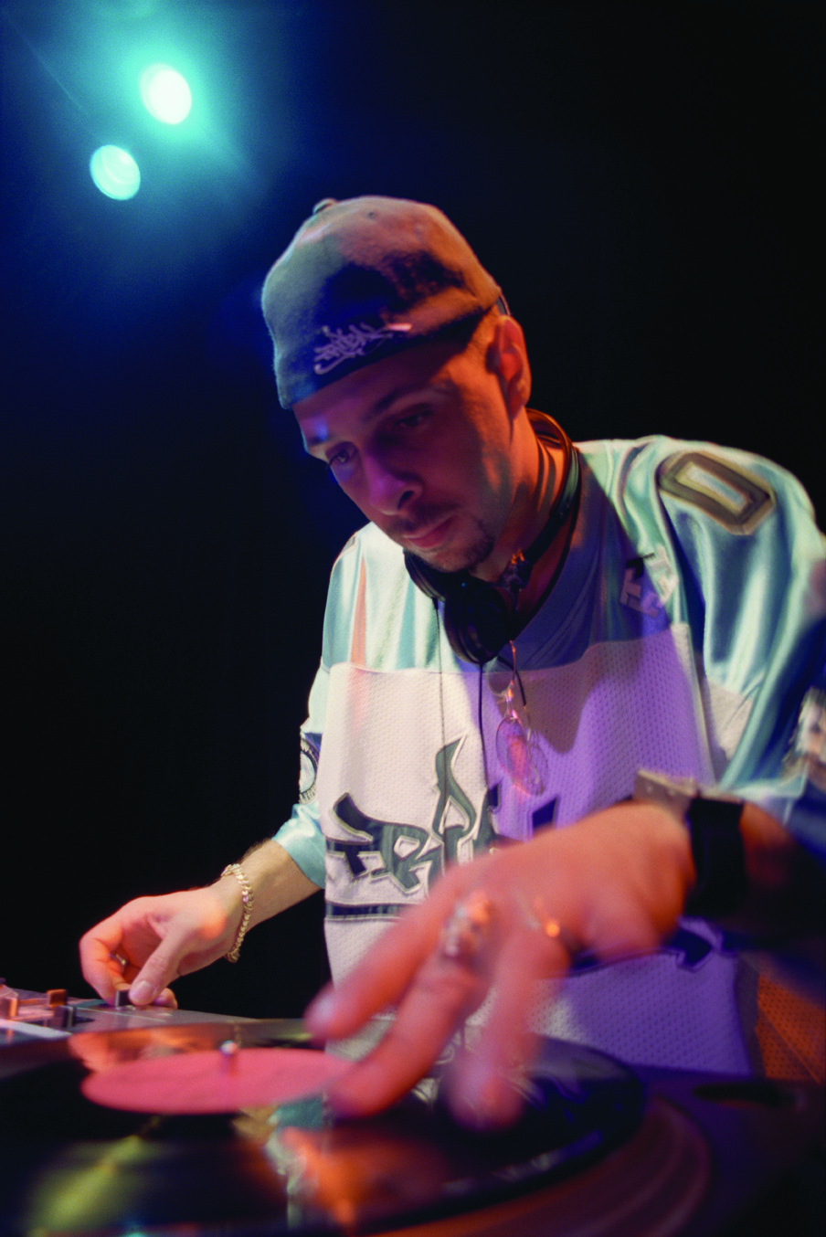 Tokio, Japan, national BOTY 2001